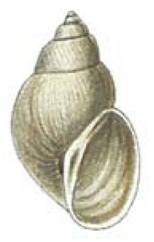 Drawing of apertural view of a shell of Galba schirazensis from its original description. According to snail materials collected by von dem Busch in the locality of Shiraz, Iran.